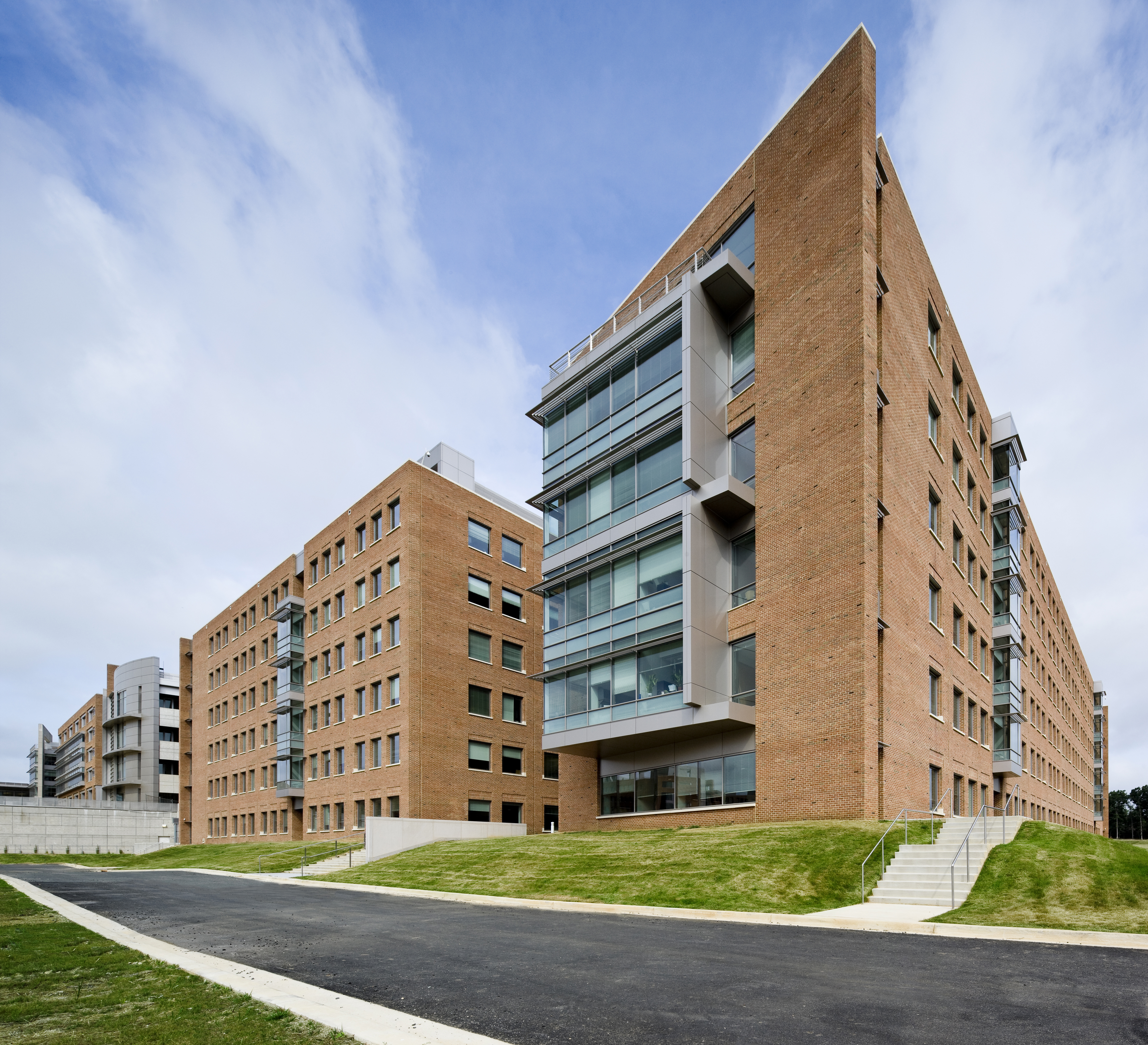 FDA Building 66 houses the Center for Devices and Radiological Health. The FDA campus is located at 10903 New Hampshire Ave., Silver Spring, MD 20993.